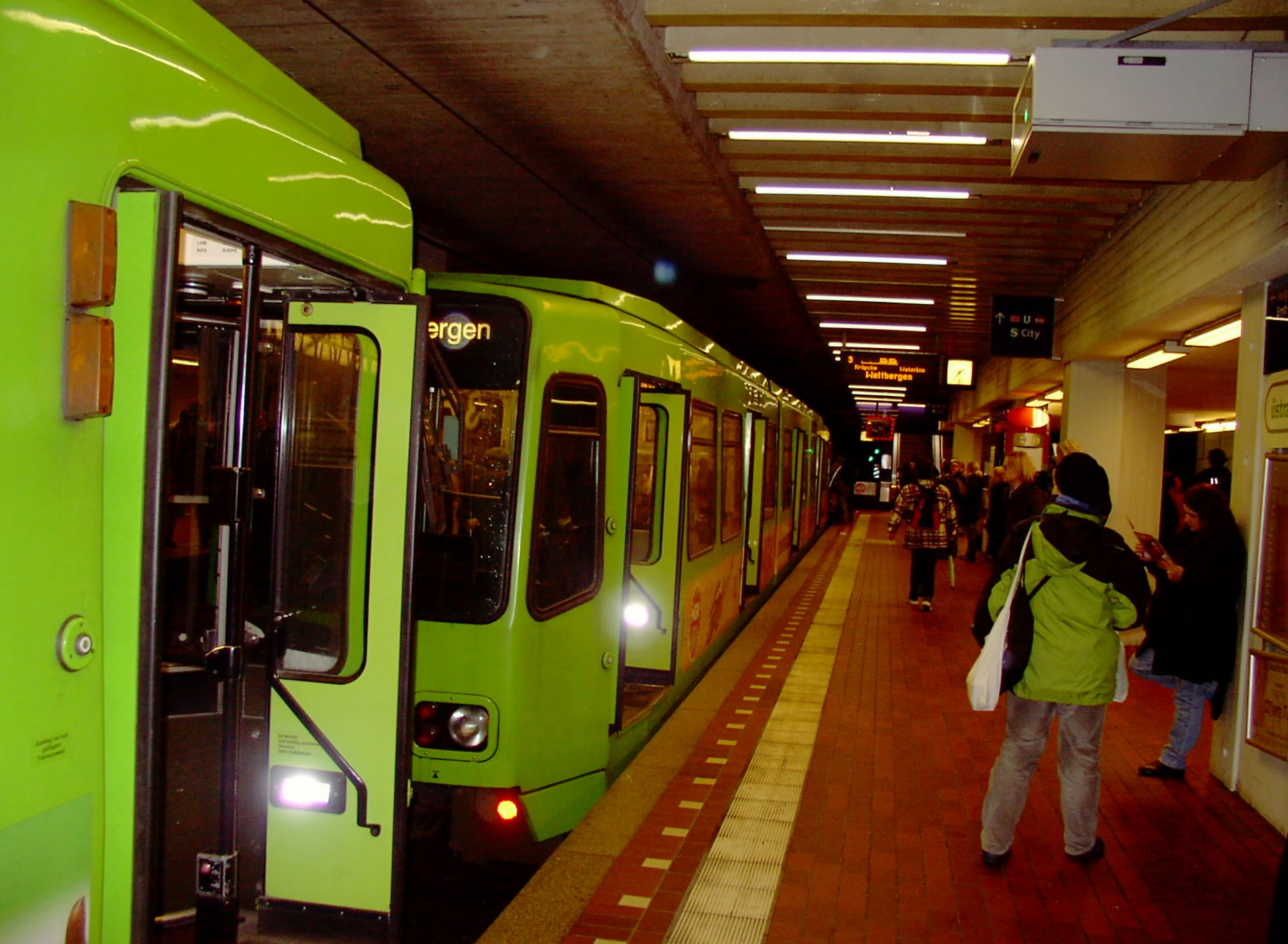 tram at Hanover main station